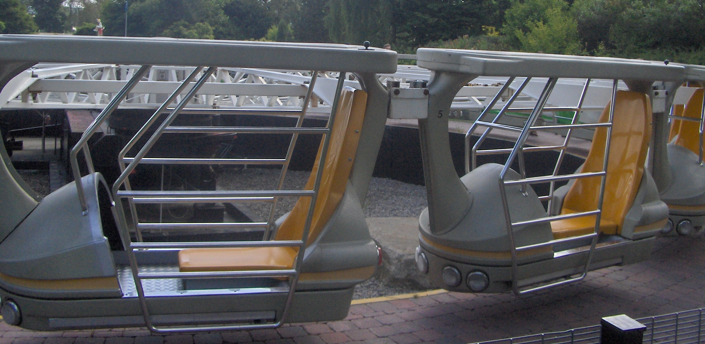 Inferno, Walibi Belgium, Belgium.